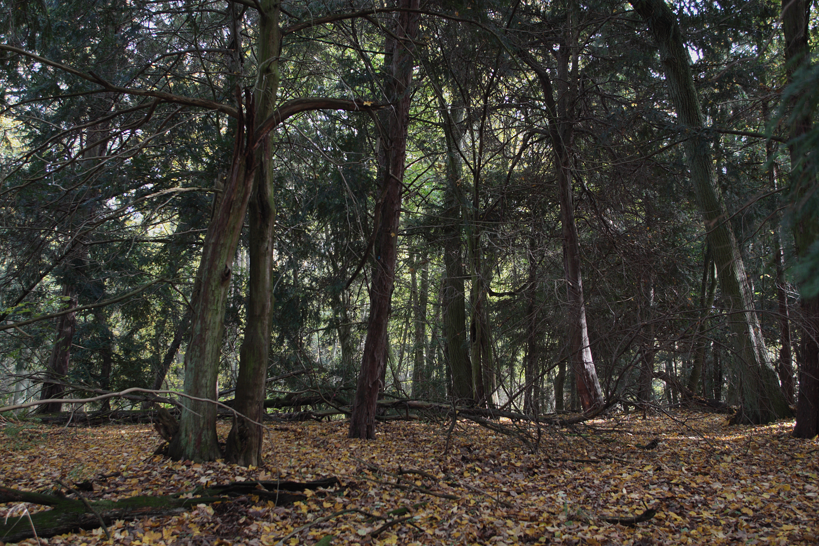 Taxus baccata (European Yew), Poland - Nature reserve "Cisy Staropolskie"